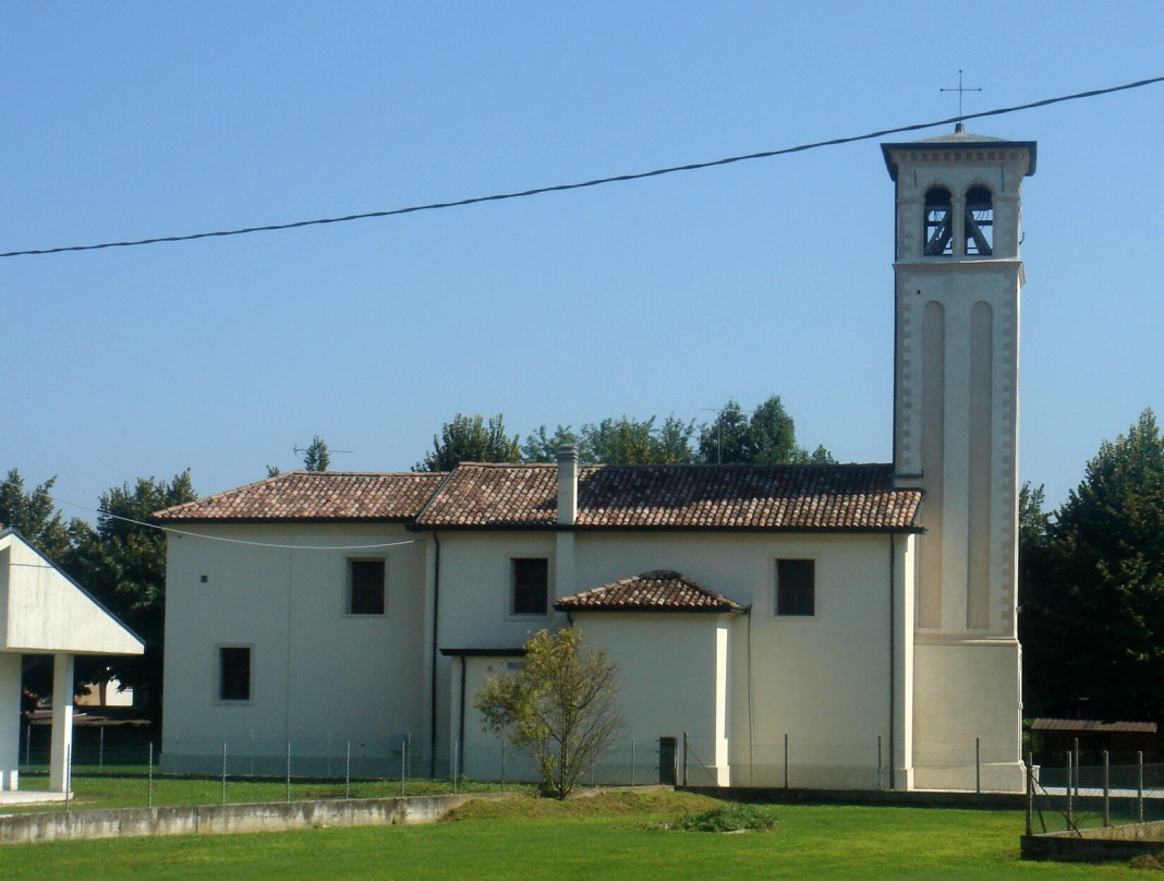 Roverbasso (TV)